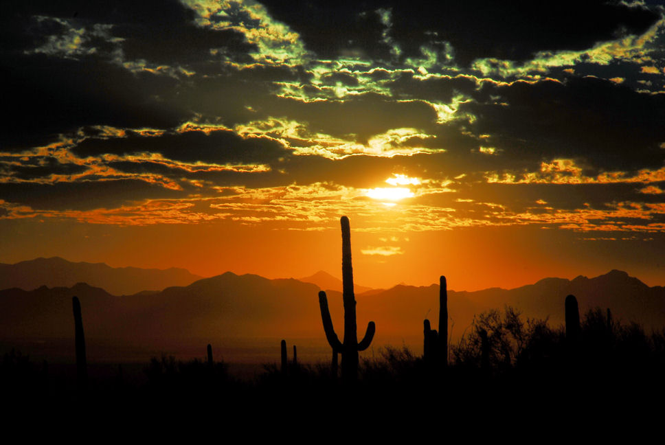 Snapped this photo of the valley in Marana, AZ.